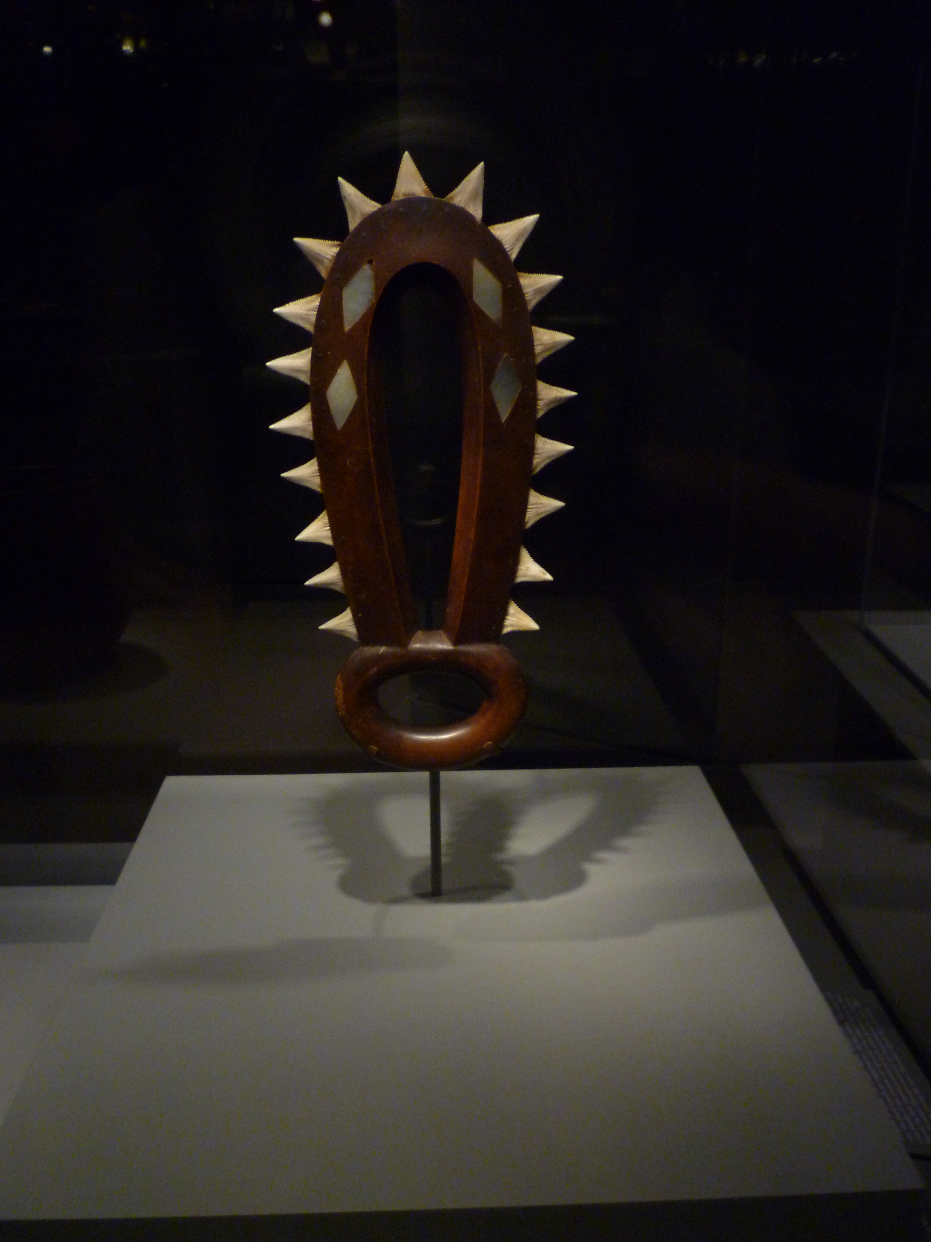 Leiomano (weapon). Wood, great white shark teeth, shell (Abalone haliotis), copper pegs. Hawai'i.